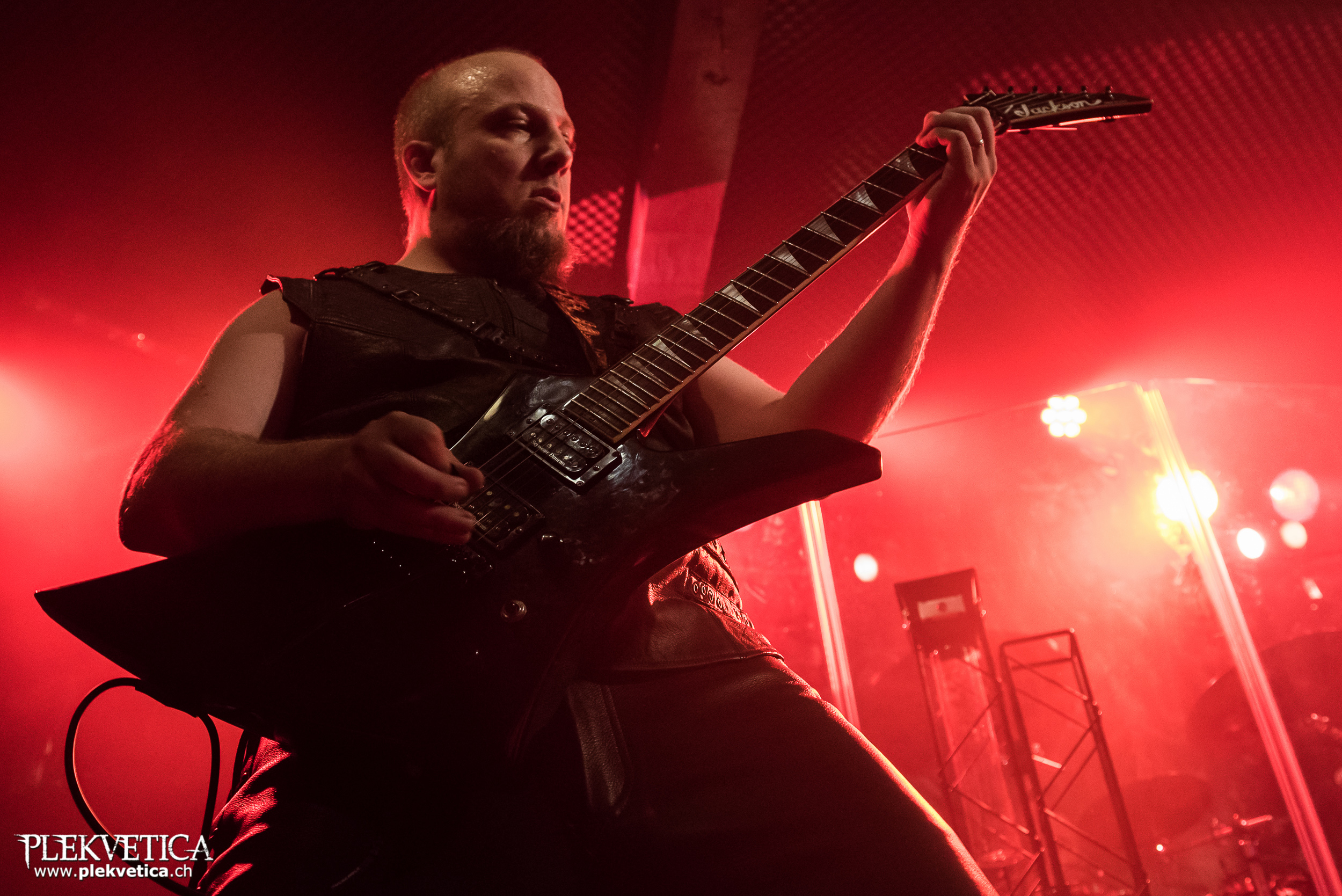 DEEP SUN, Pascal Töngi, Guitar, live at Böröm, 2019